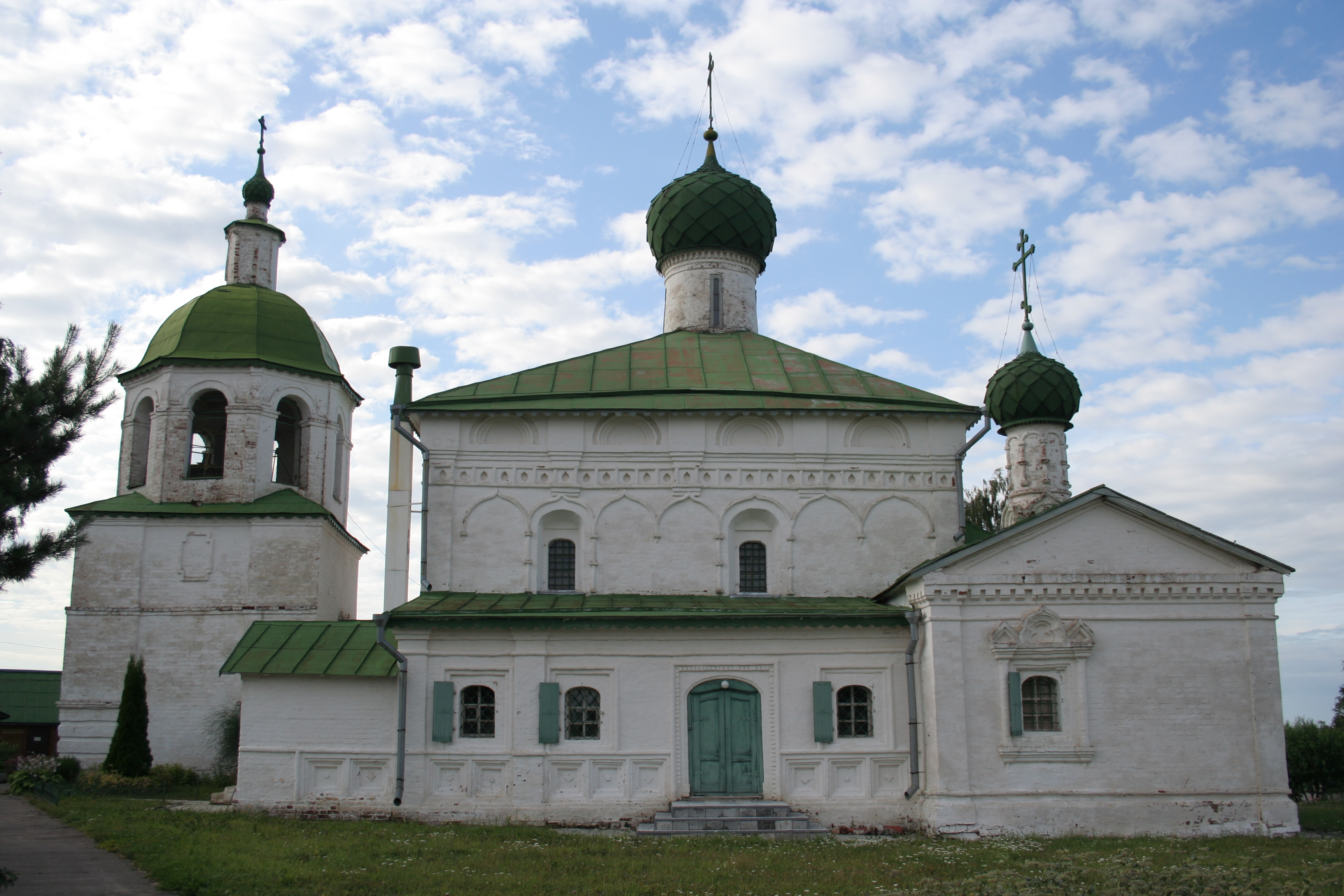 Church of the Christmas (also known as Elijah Church) in Kostroma, Russia.